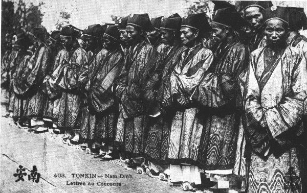 Vietnamese candidates for the Imperial examination in the late 19th century